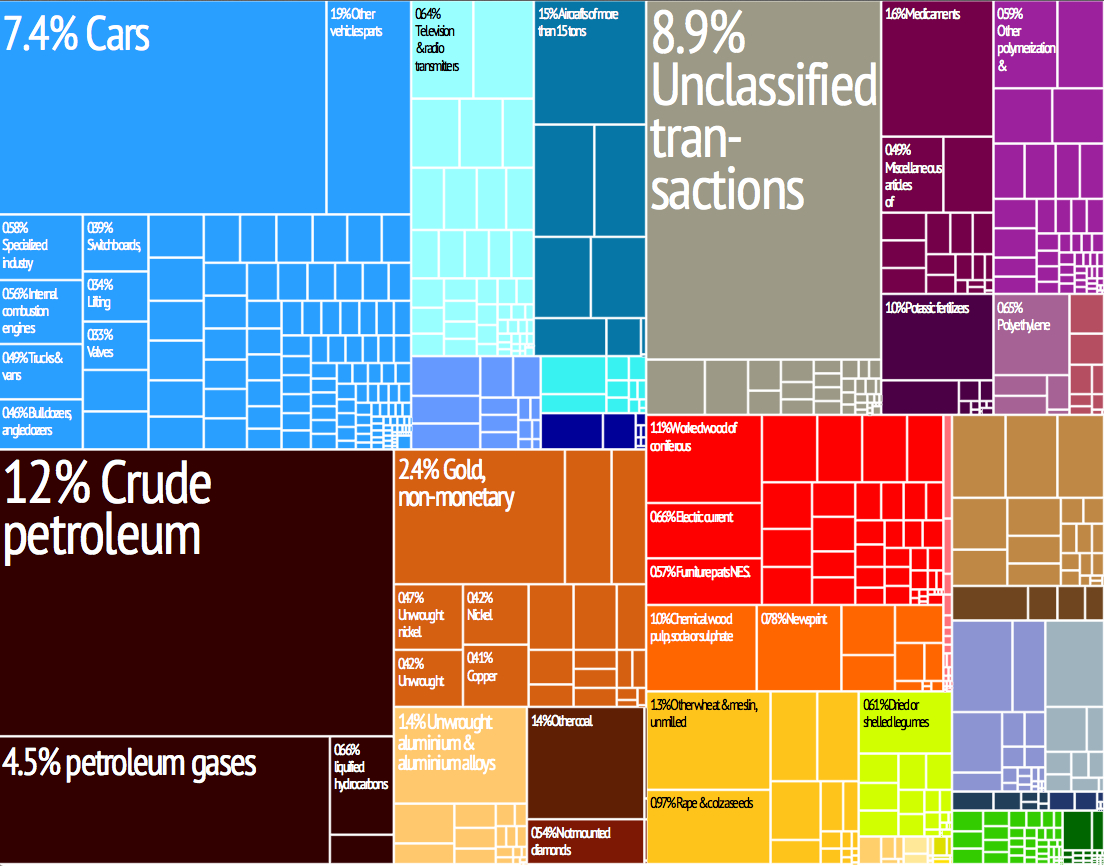 Export Trading Treemap. From MIT/Harvard Atlas of Economic Complexity